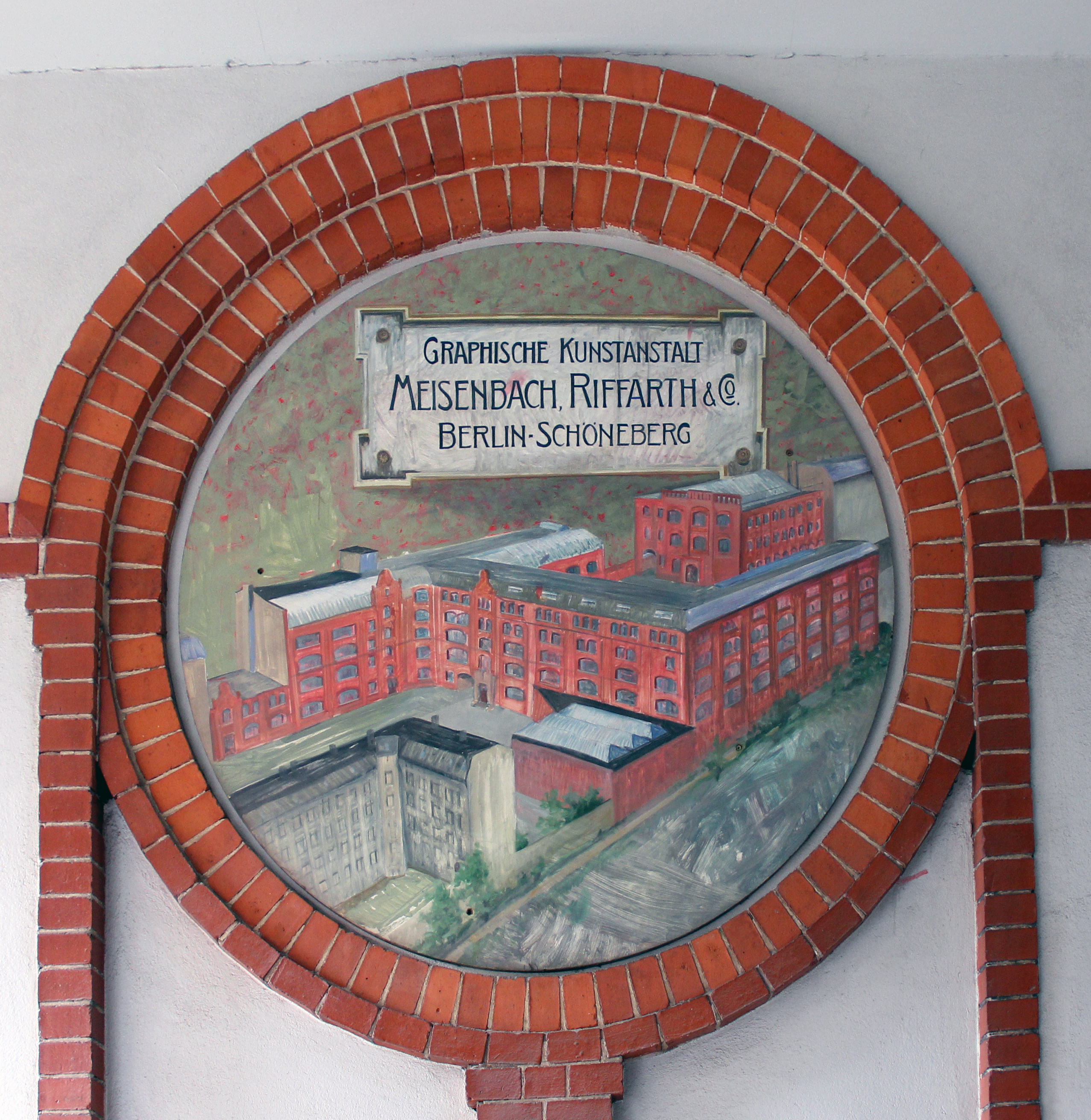 Murals, Georg Meisenbach, Hauptstraße 8, Berlin-Schöneberg, Germany